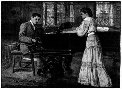 Serenade